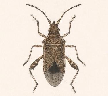 Biologia Centrali-Americana - Harmostes serratus Cut-out from original (Biologia Centrali-Americana (8272534418).jpg) shown below